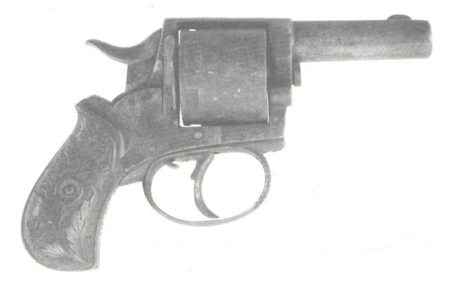 The revolver used by Kanailal Dutta to shoot Narendranath Goswami inside the Alipore Jail on 31 August 1908.